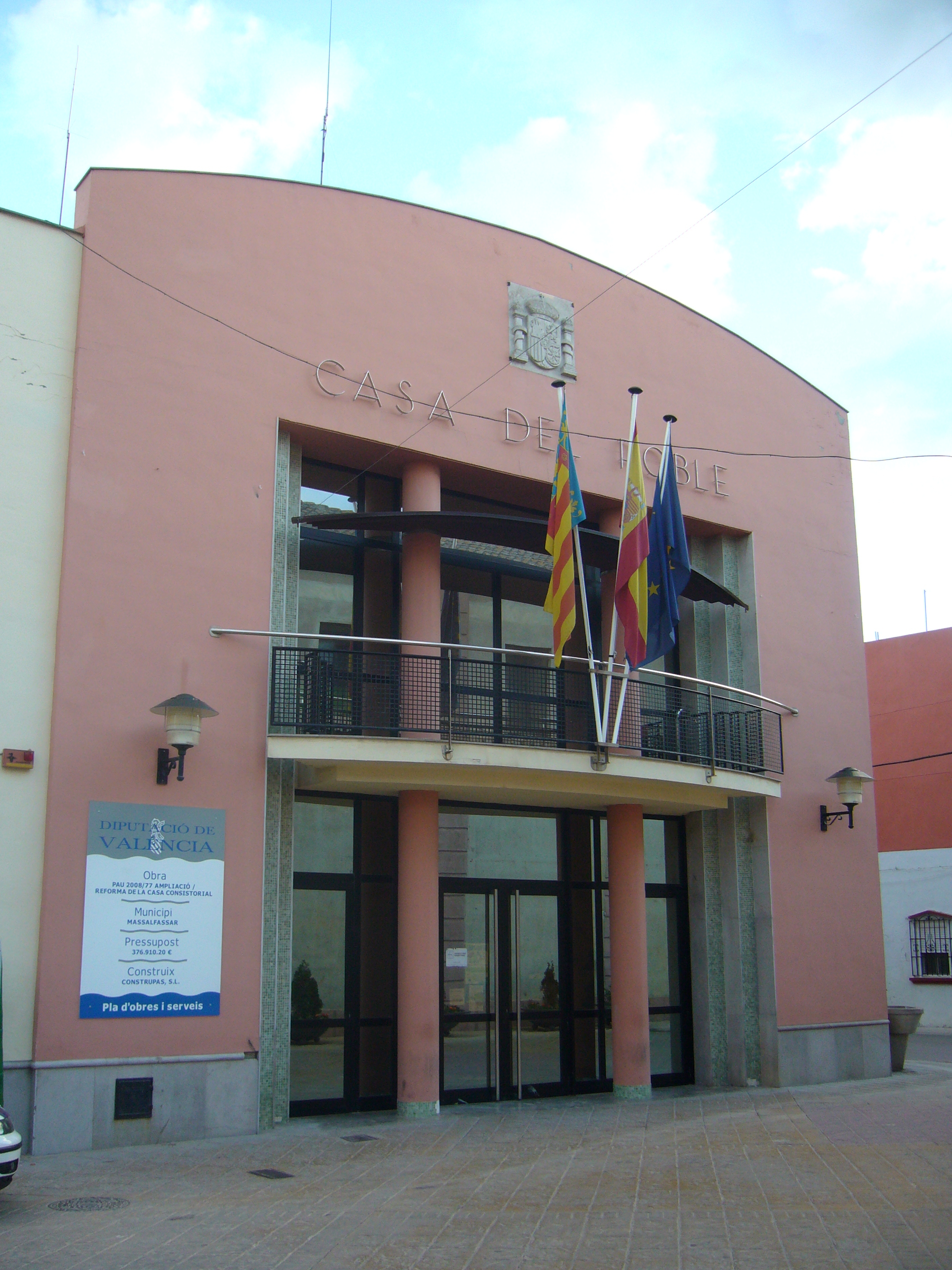 Massalfassar city council